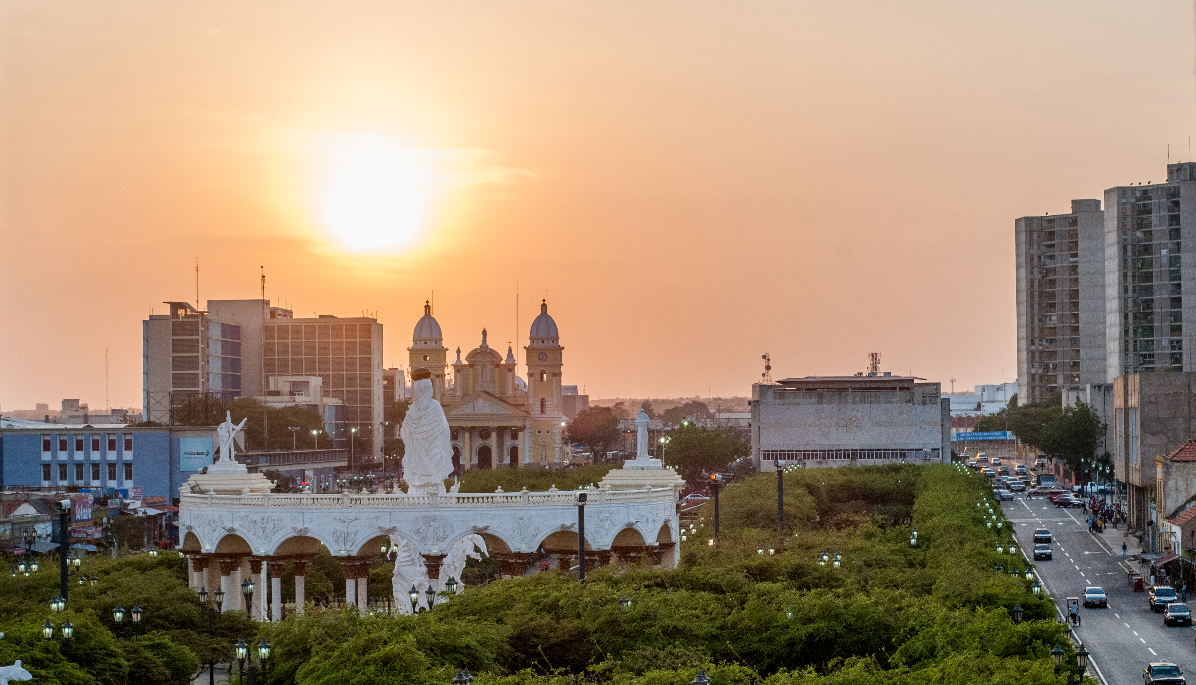 Maracaibo sunset